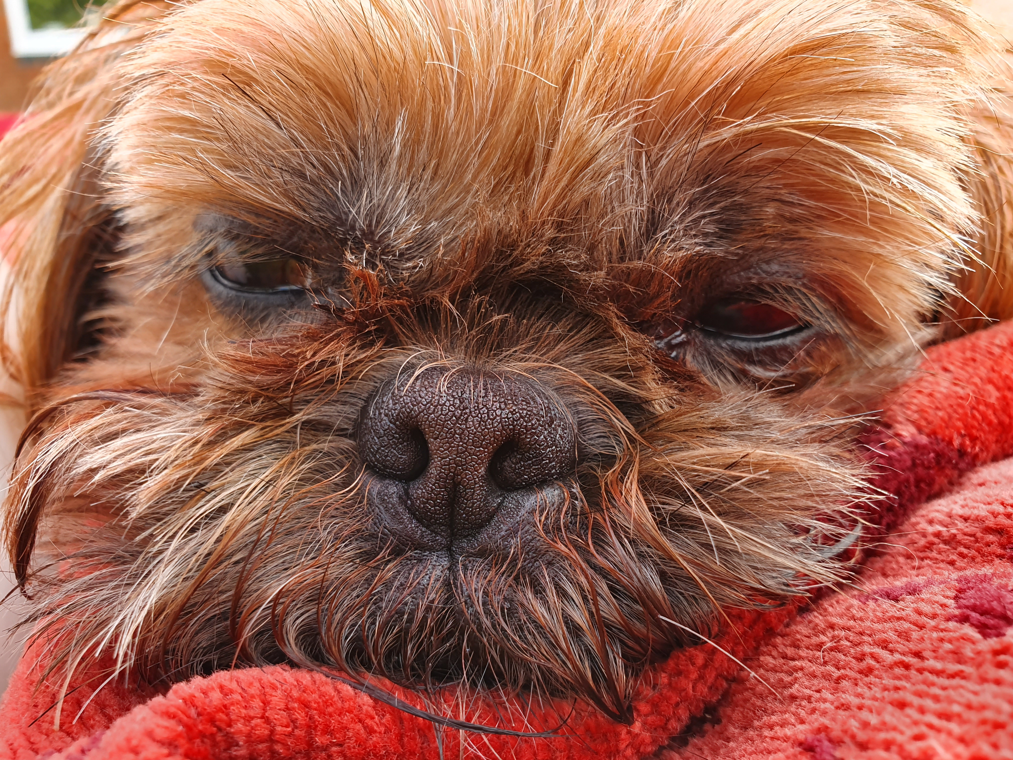 Close-up (Adult Shih Tzu)